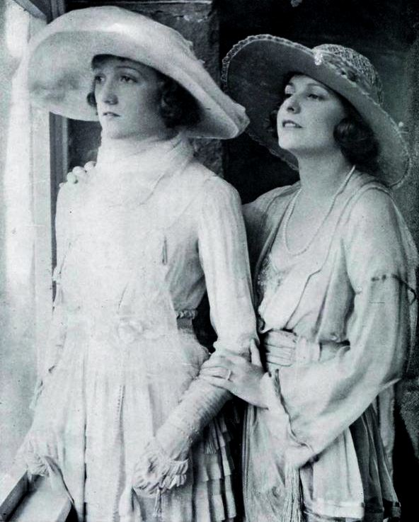 Constance and Norma Talmadge on page 20 of the November 1920 Screenland.